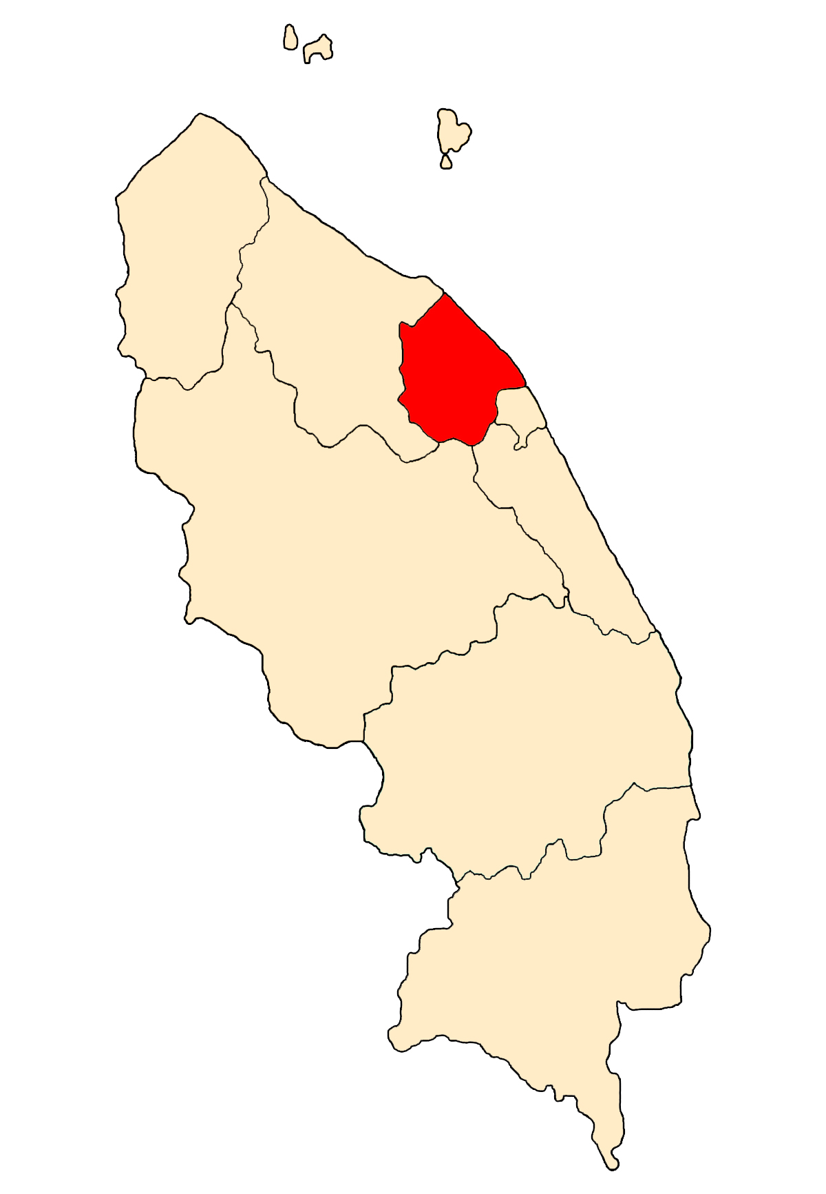 Location of Kuala Nerus district, Terengganu, MALAYSIA